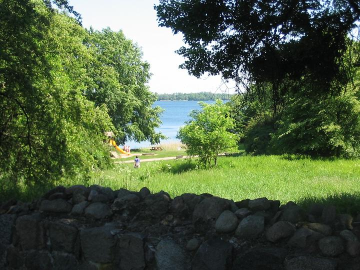 Parsteiner See with ruins from the former cistercian monastery Mariensee, built between 1258 and 1266/67, displaced before it’s completition to Chorin with the new name Kloster Chorin. The Parsteiner See is a finger lake (proglacial lake) in Germany, Brandenburg, District Barnim, and covers 10,03 km²